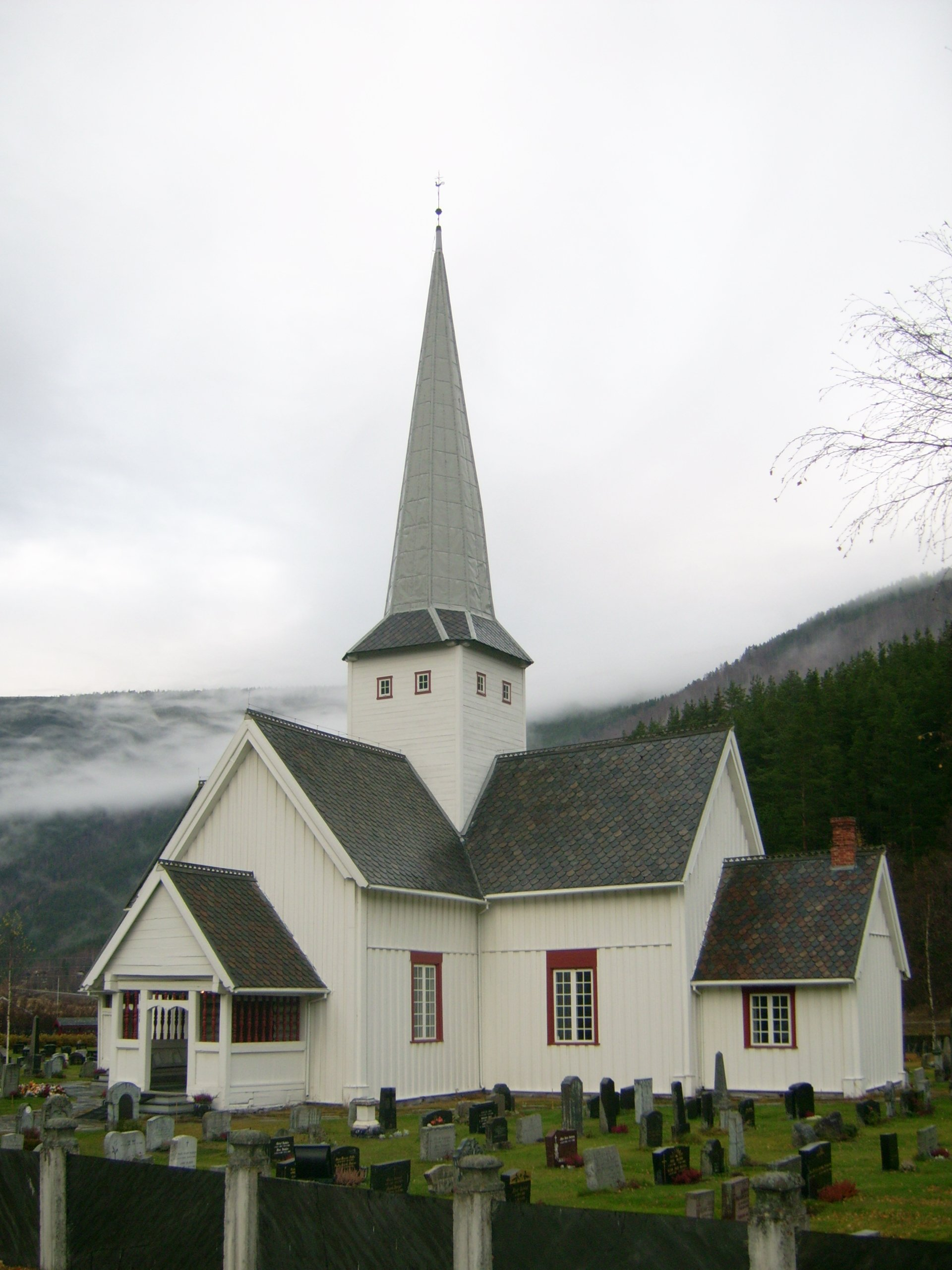 Sel church, Sel, Oppland, Norway.